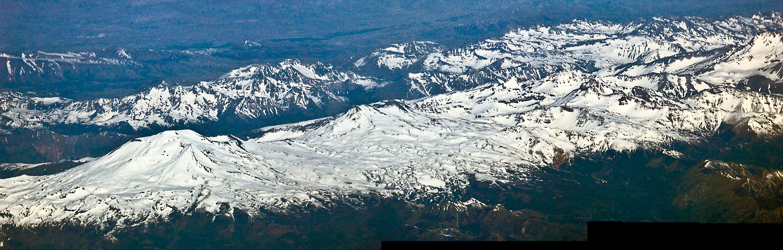 Nevados de Chillán, volcanic complex. Chile - VIII Region (Bío-Bío) 3 image composite. FLTR: Volcán Santa Gertrudis, Volcán Blanco, Volcán Nuevo, Volcán Arrau and Volcán Chillán (Viejo), among others.